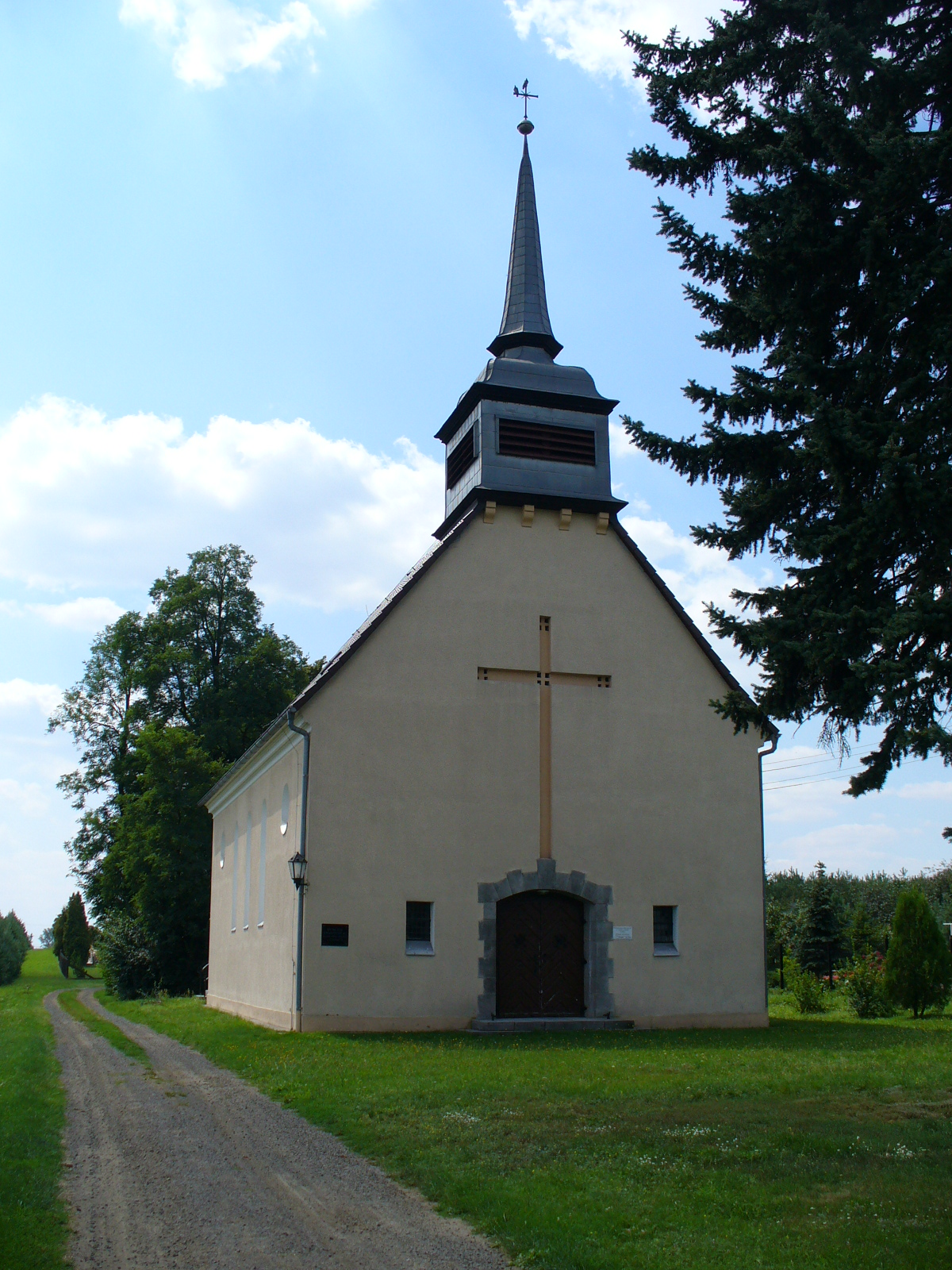 Osiny - protestant church